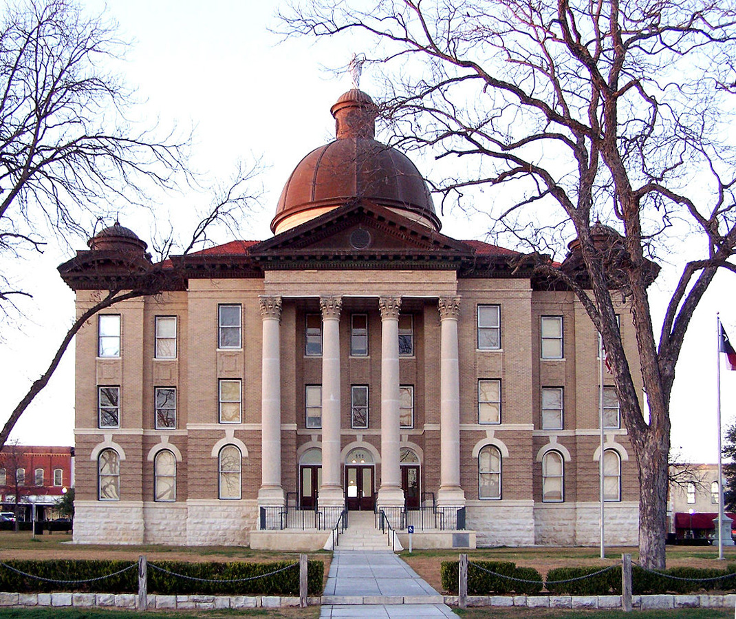 The Hays County Courthouse in San Marcos, Texas, United States. The courthouse was built in 1909 using the eclectic style of architecture and was listed on the National Register of Historic Places on May 23, 1980.